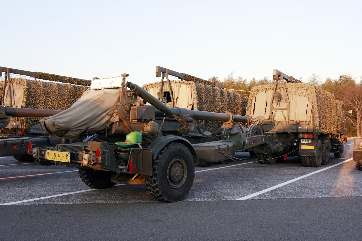 JGSDF FH70 (Field Howitzer for the 1970s) transport